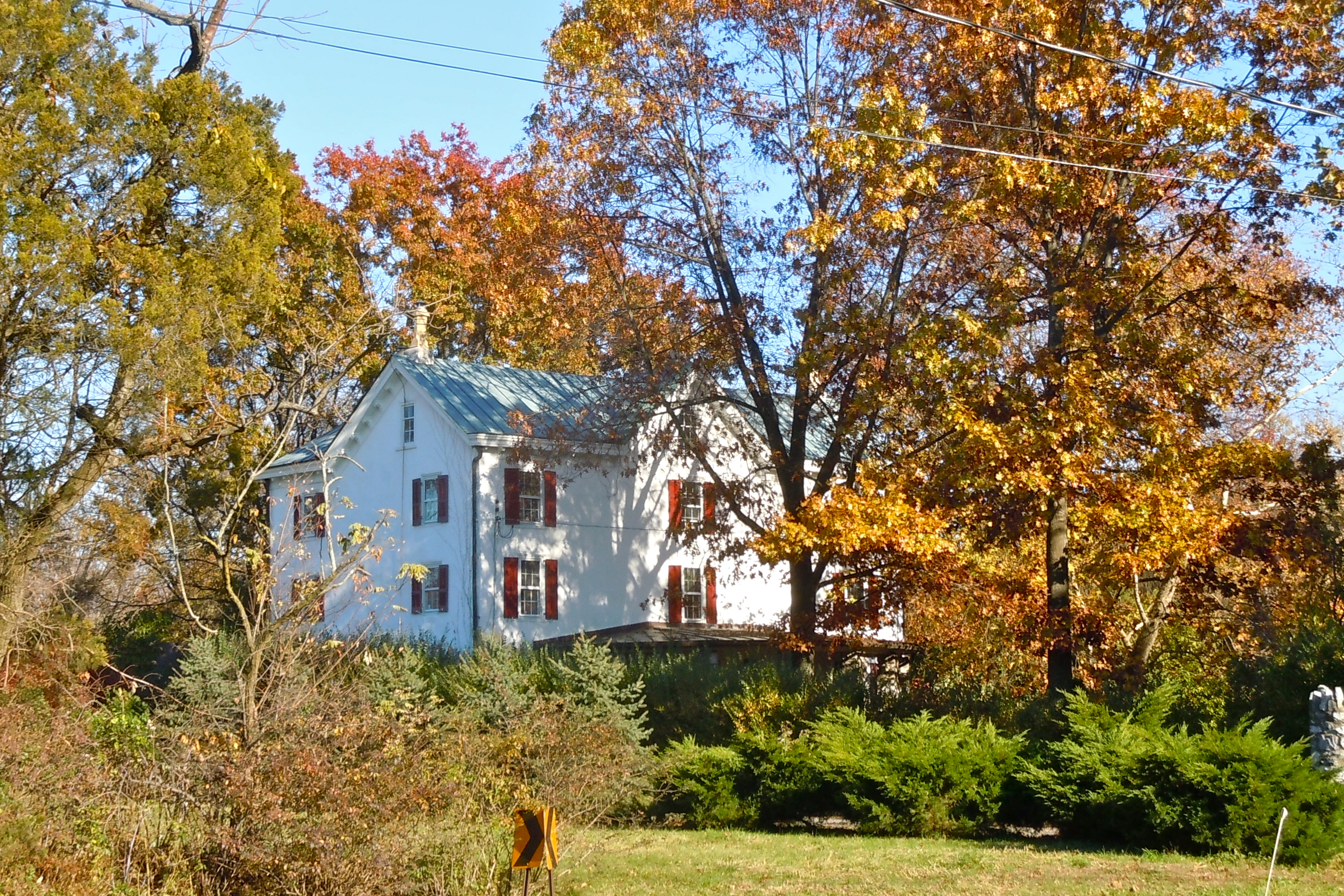 Knipe-Moore-Rupp Farm on the NRHP since November 7, 2003. At Hancock Road and Prospect Avenue, North Wales, in Upper Gwynedd Township, Montgomery County, Pennsylvania. Land protected by a farmland trust.